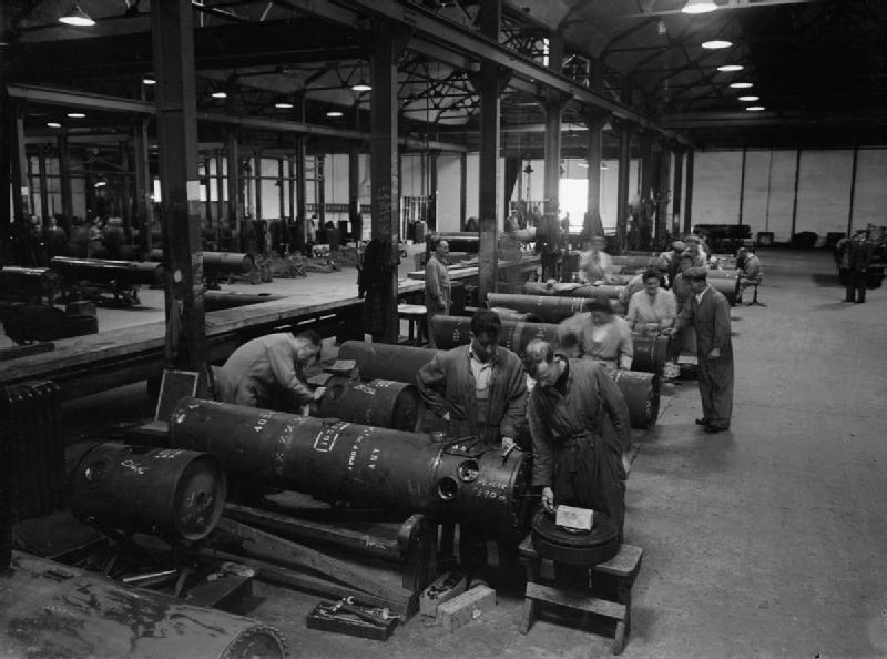 Life at Royal Navy Armament Depot Frater, Gosport, 25-30 July 1944 At RNAD Frater, the mine depot administered by RNAD Priddy's Hard, Gosport, men and women workers fit the complicated instrument panel to loaded mines. This panel contains the mechanism which sets the mine off.